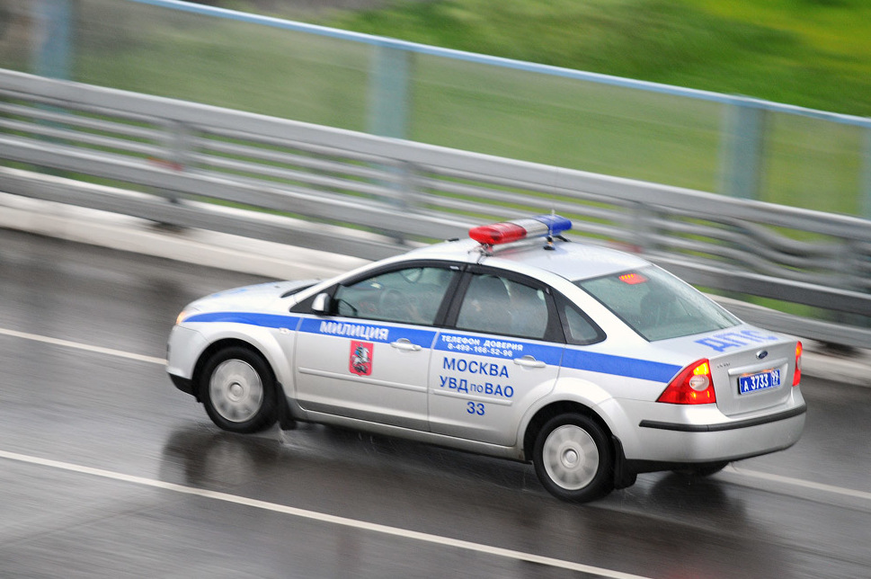 A Car of Russian Police is in a rainy day in Moscow.